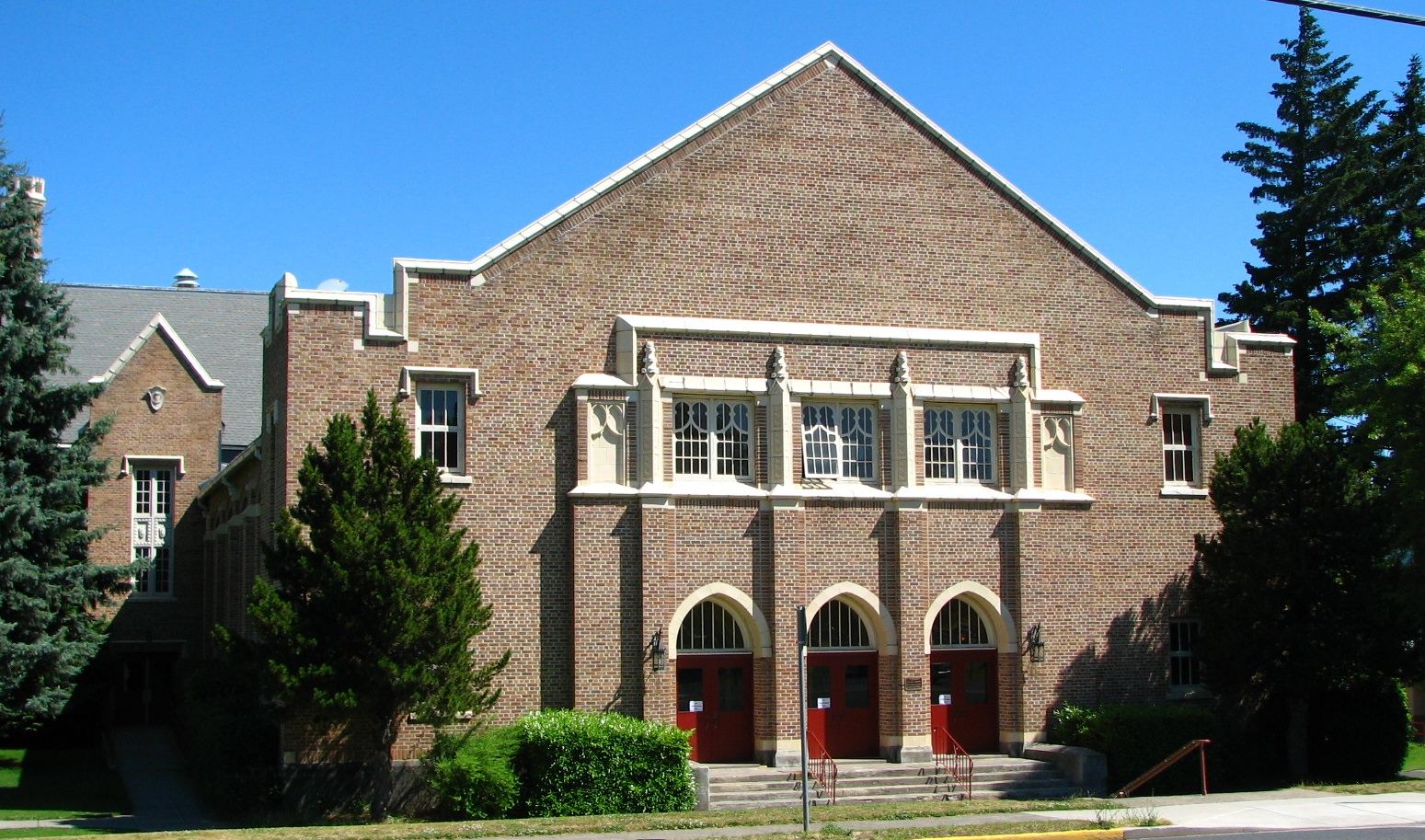 Hood River Middle School at 1602 May Street in Hood River, Oregon, United States, serves all of Hood River County. Under its former name of Hood River High School, the building (built 1927) is listed on the US National Register of Historic Places.